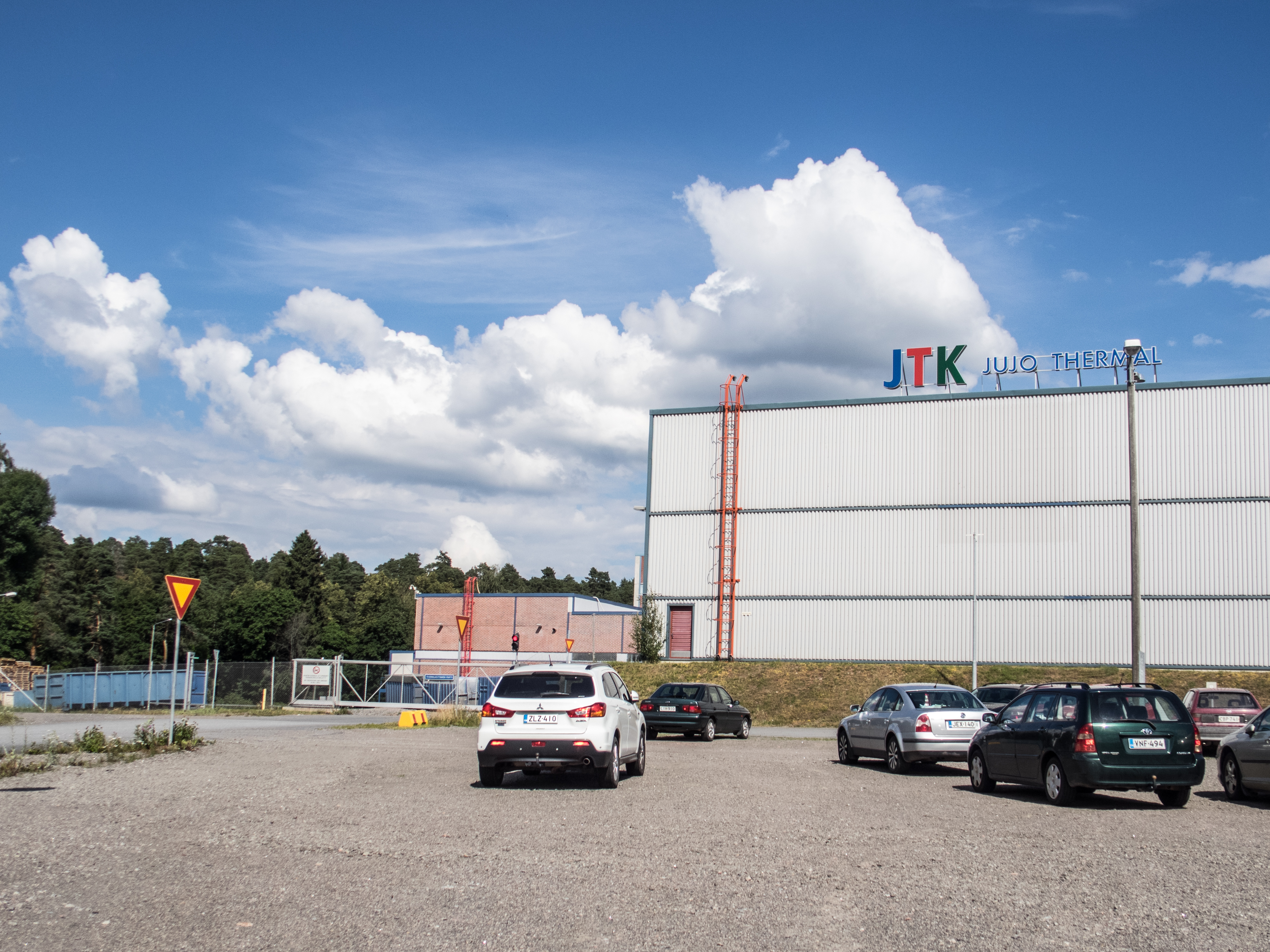 JTK Jujo Thermal paper mill in Kauttua, Eura, Finland.